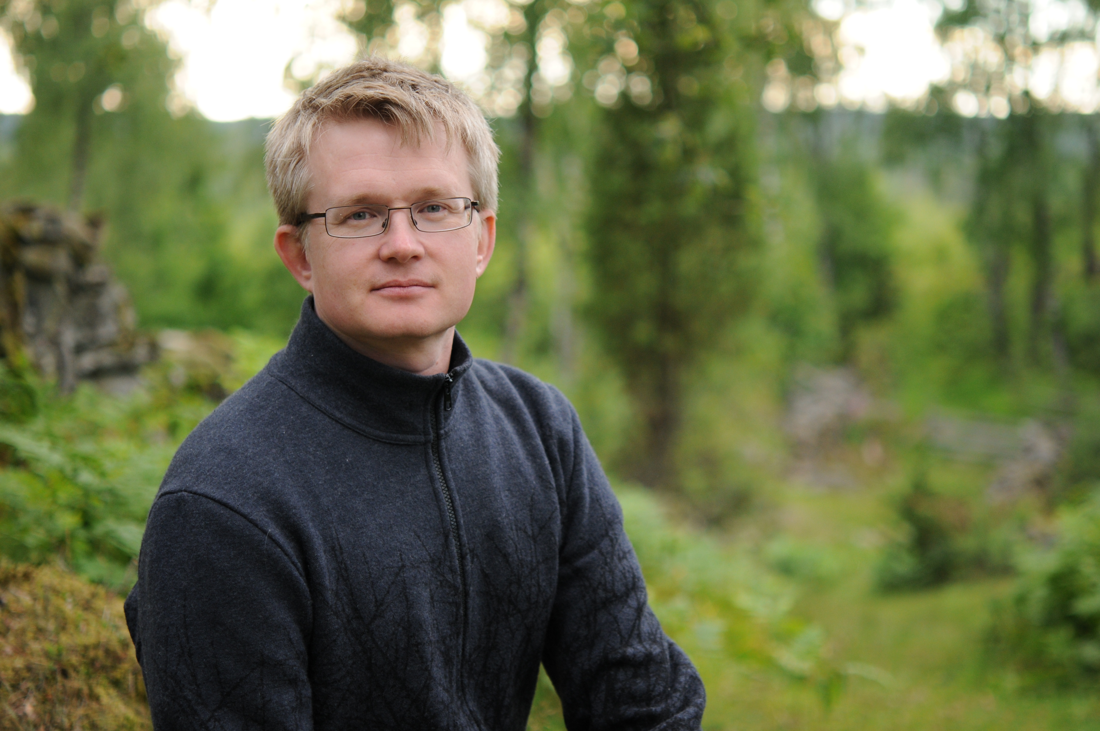 Lars Wilderäng, novelist and blogger